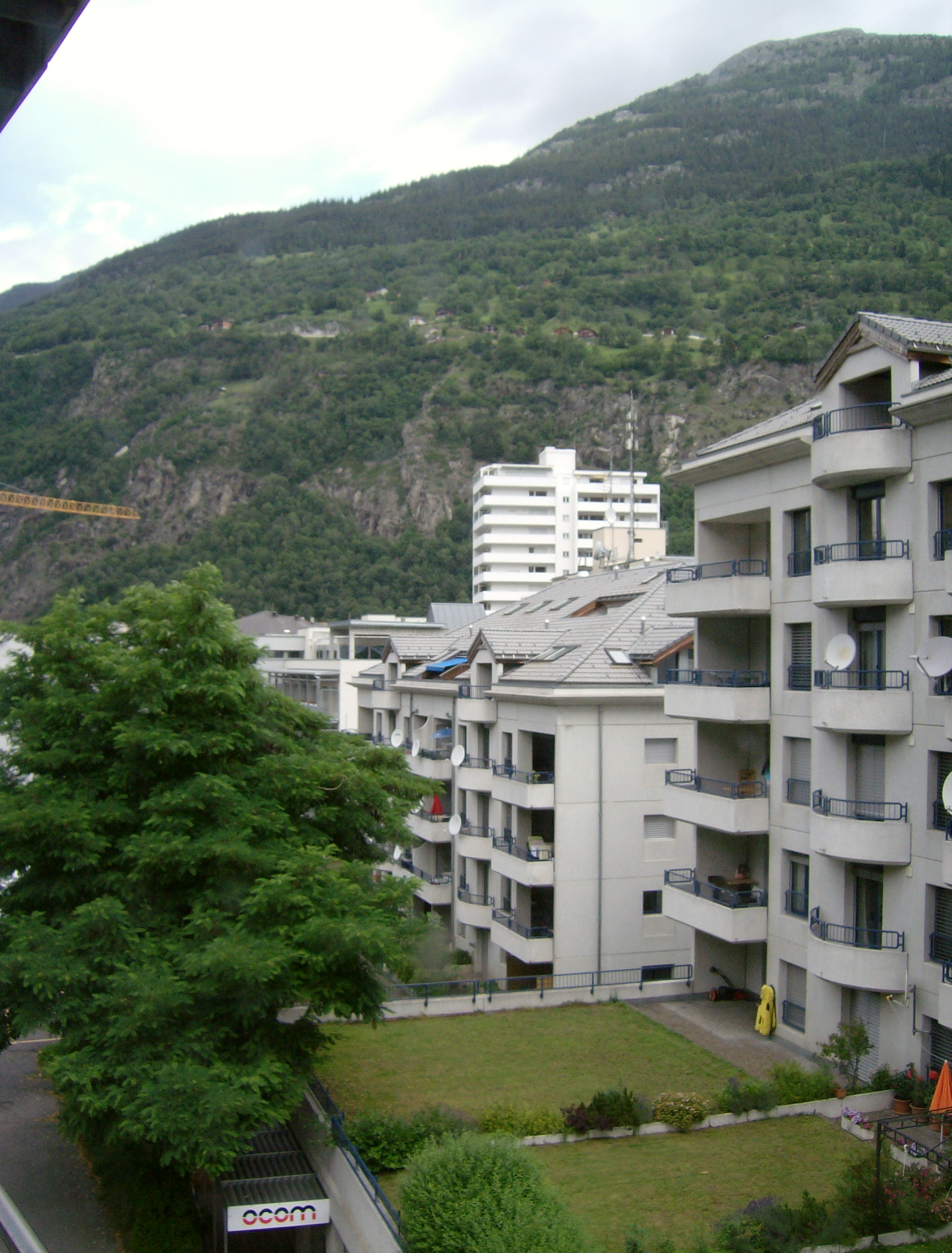 Modern apartments in Brig, Valais, Switzerland